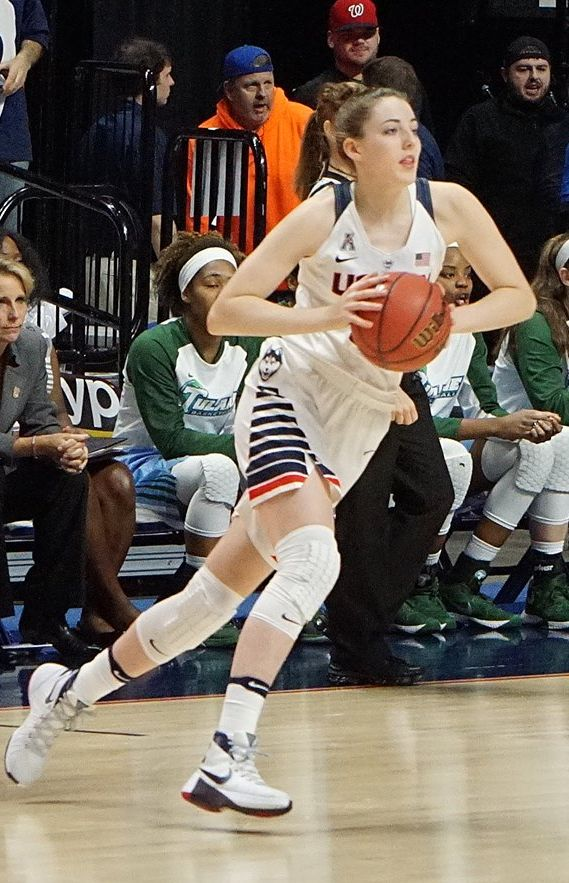 Katie Lou Samuelson in Conference tournament game against Tulane